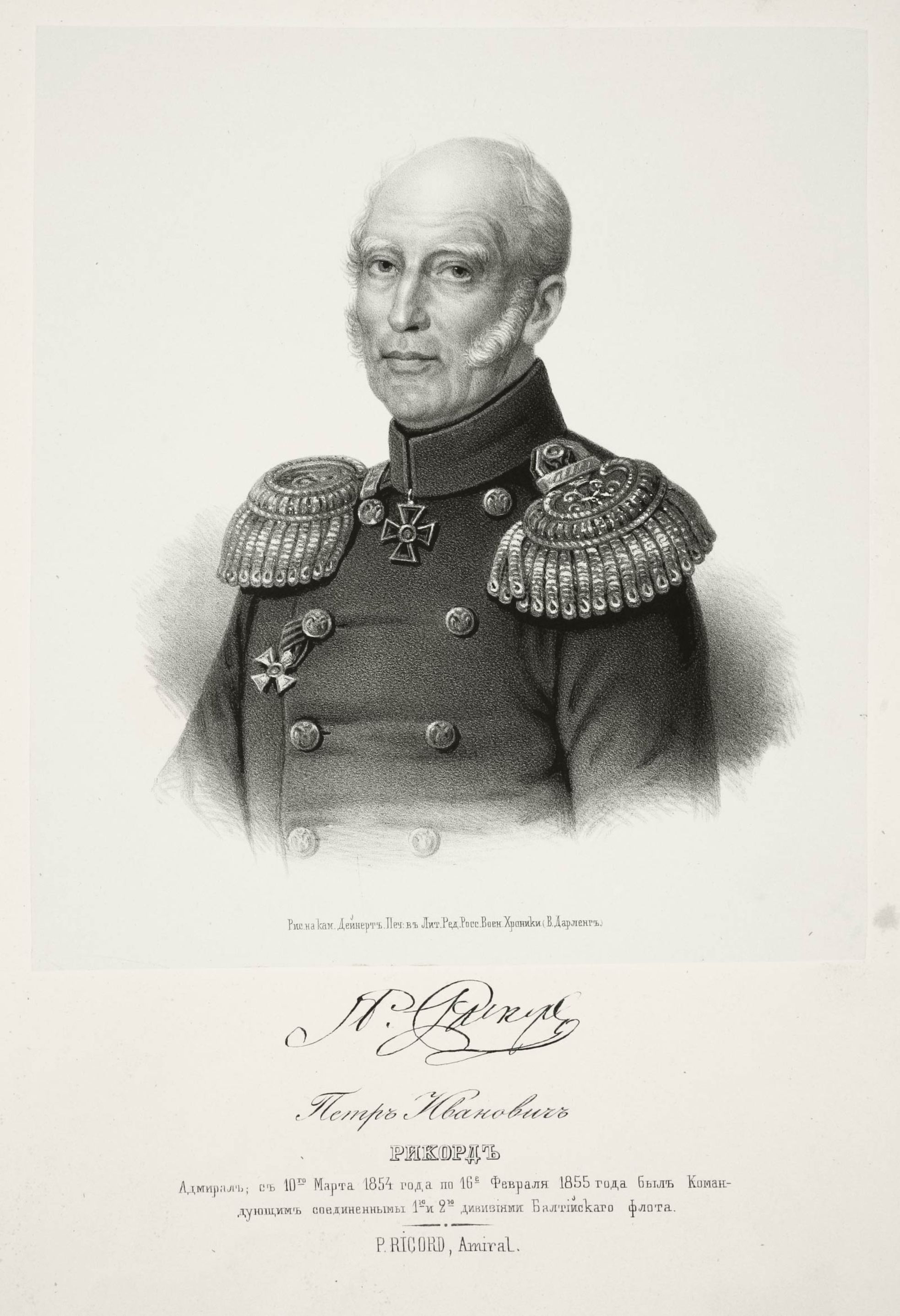 Petr Rikord - admiral of the Russian fleet